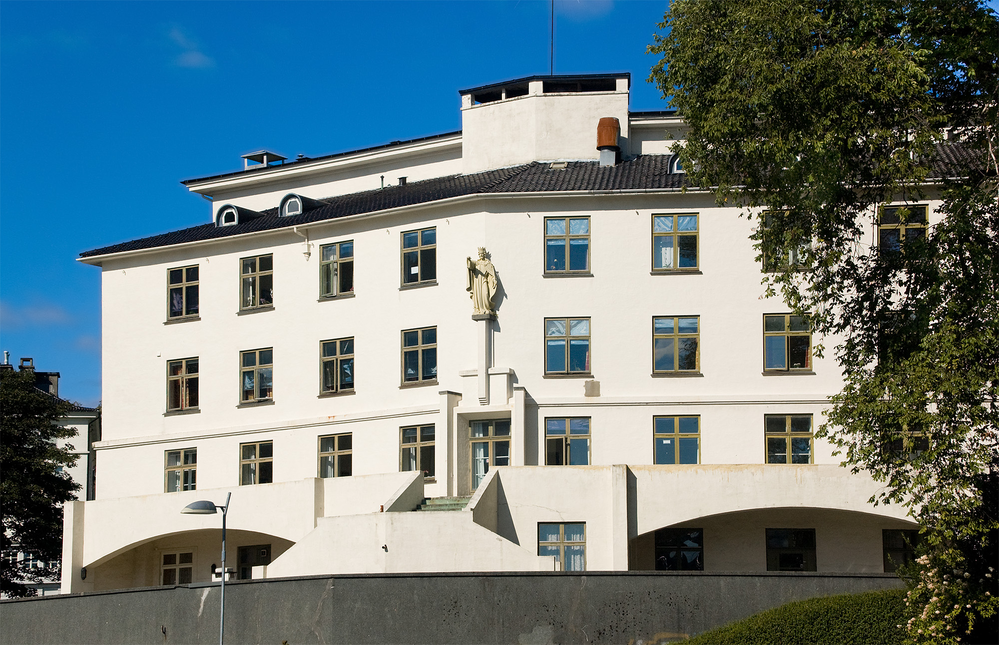 Florida Hospital in Bergen, Norway.